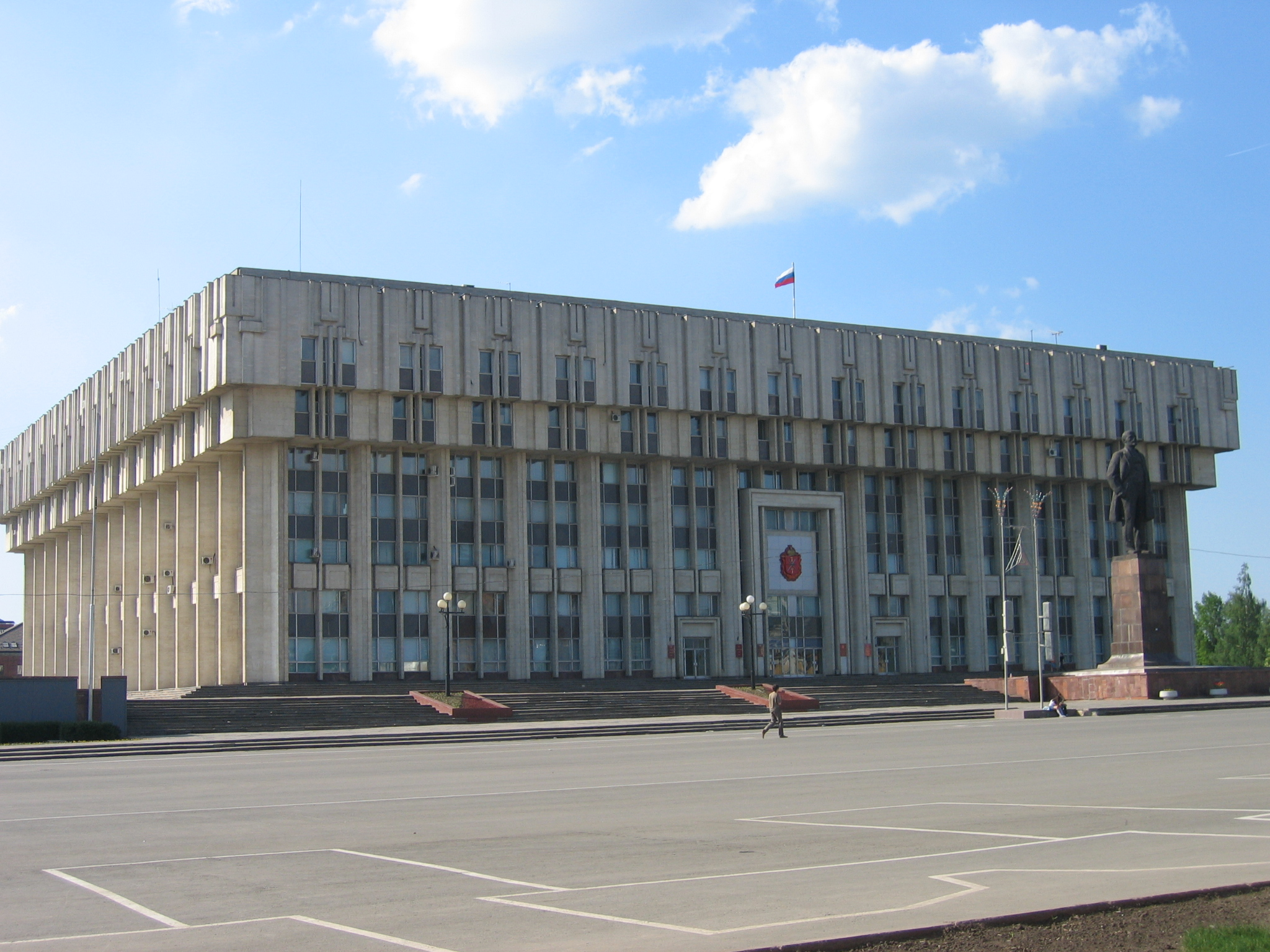 Duma building of the Tula Oblast, Lenin square